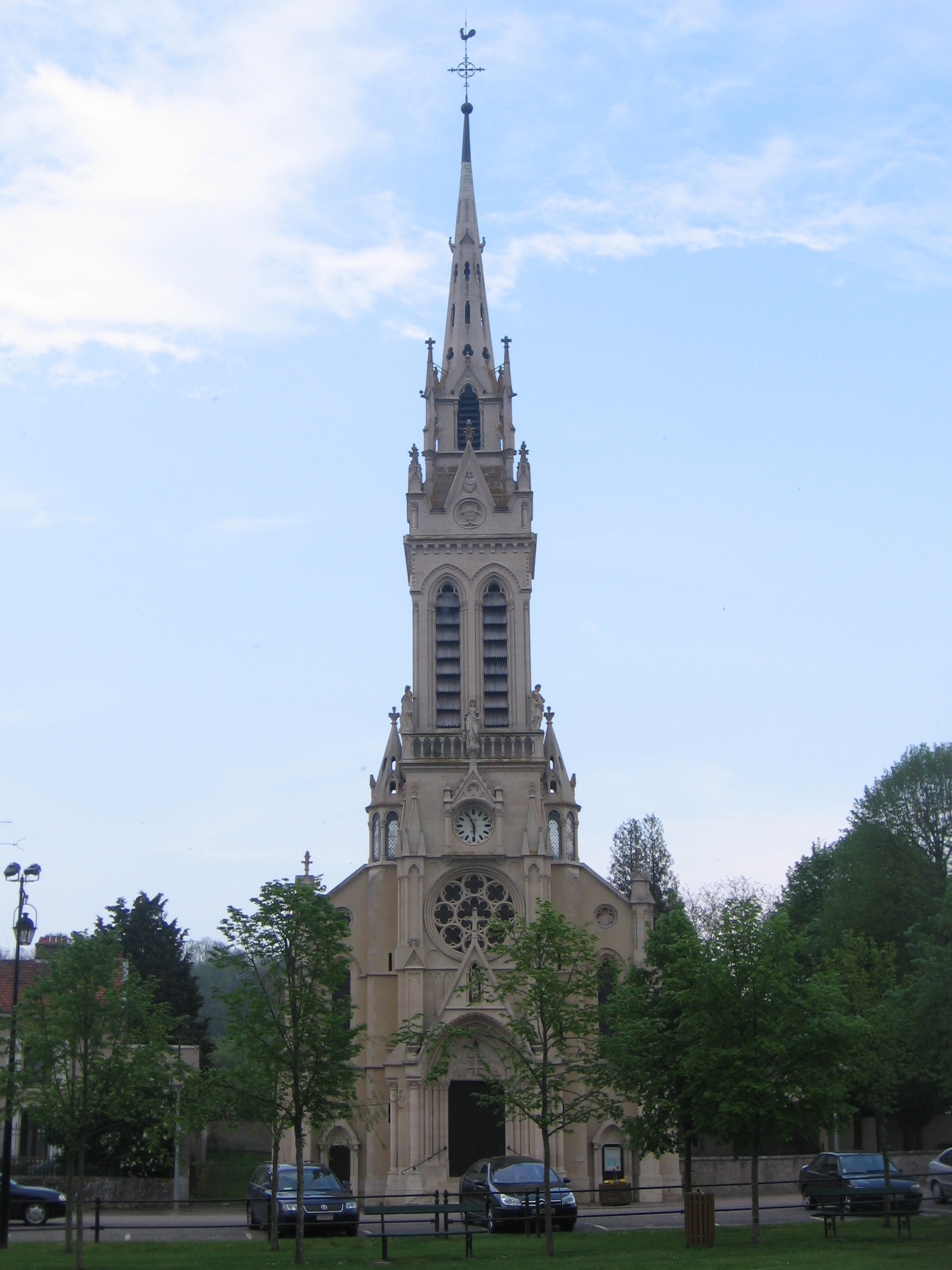 Trinity Church Haroué, may 2006